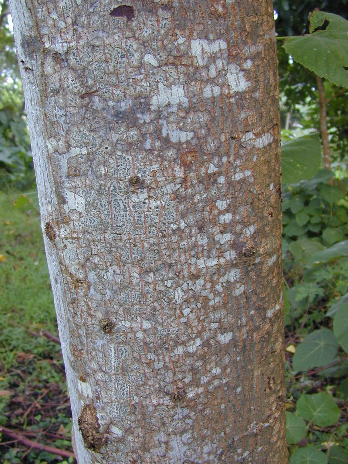 Melochia umbellata (trunk). Location: Hawaii, Keaukaha